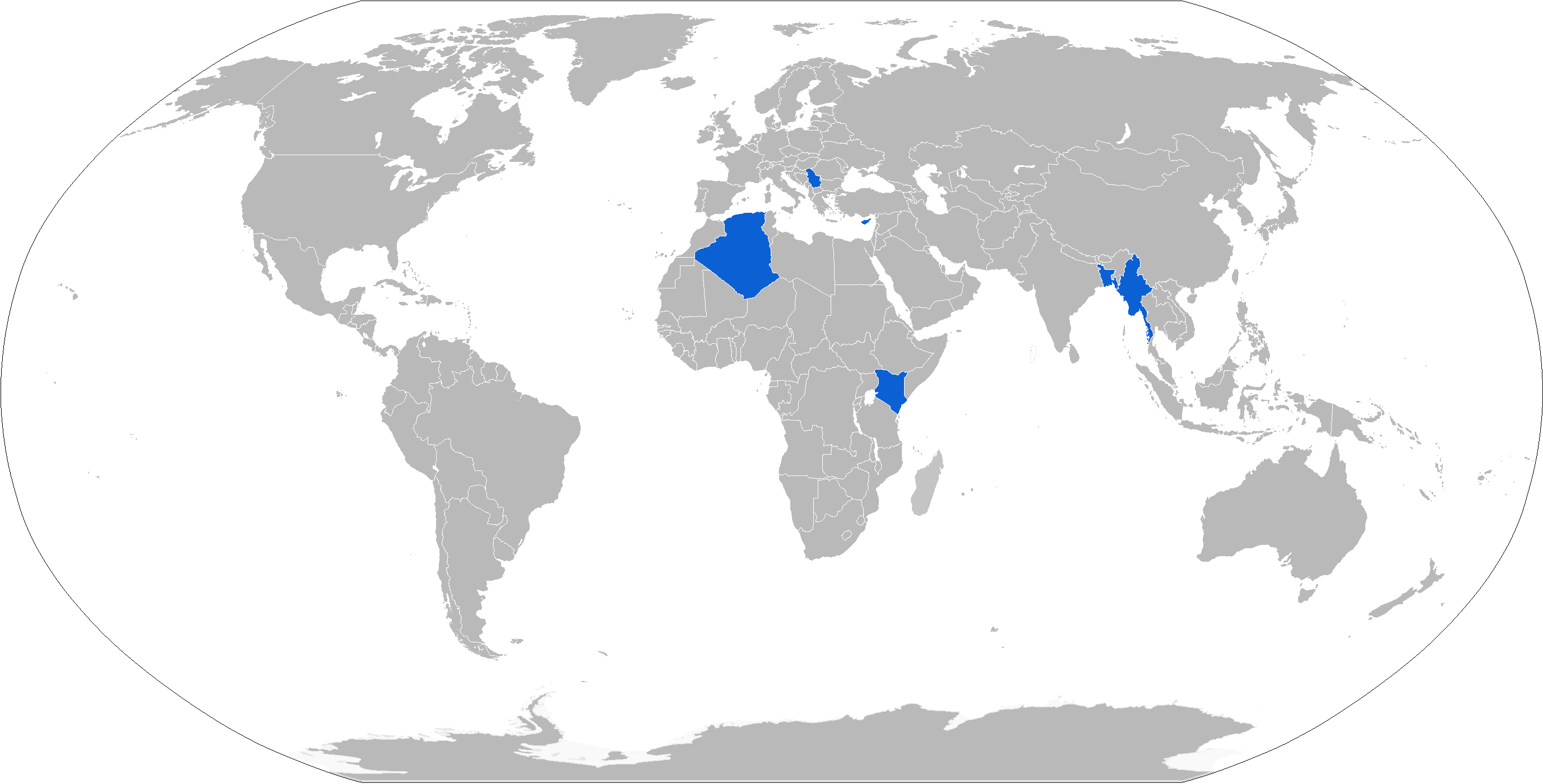 Map of Nora B-52 operators in blue